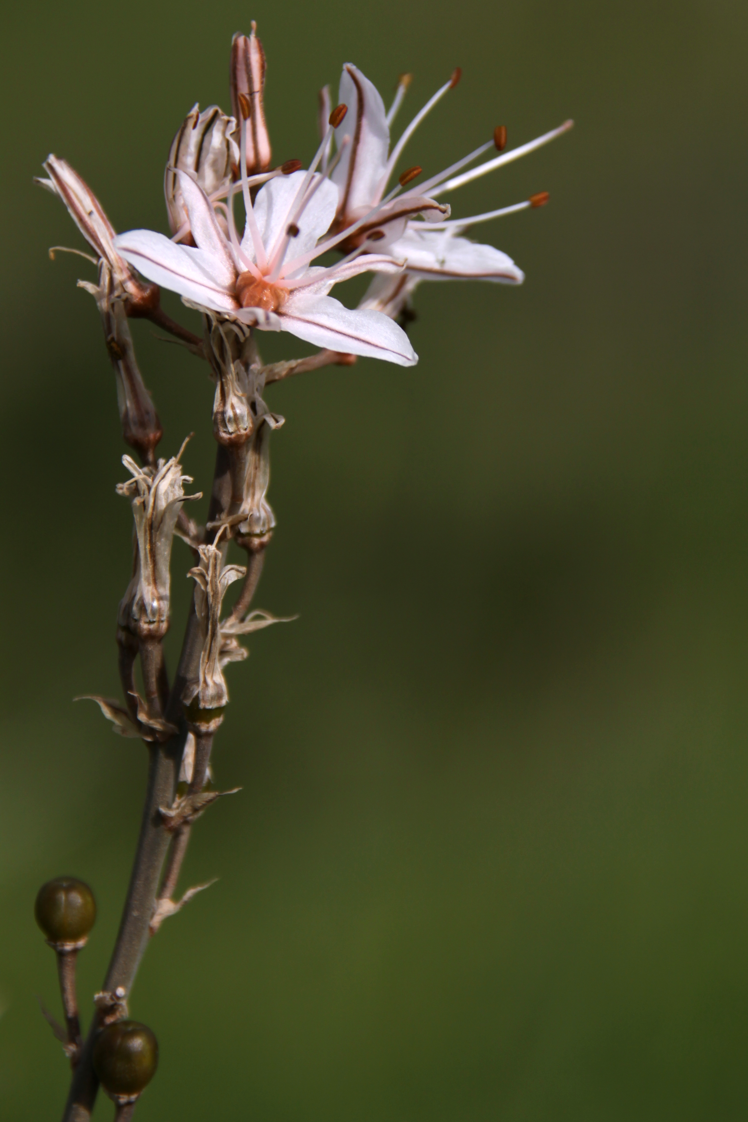 Asphodelus ramosus. Taken at "Tel Gamma", northwestern Negev, Israel.